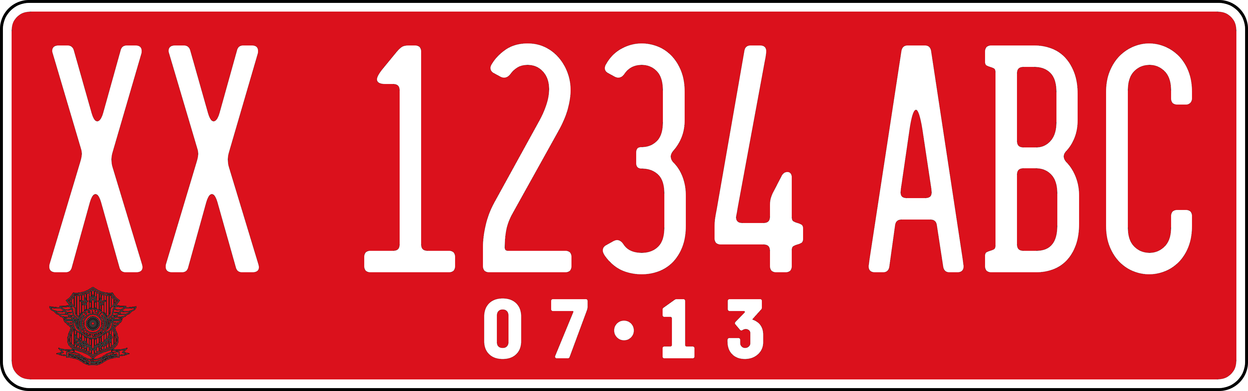 red plate